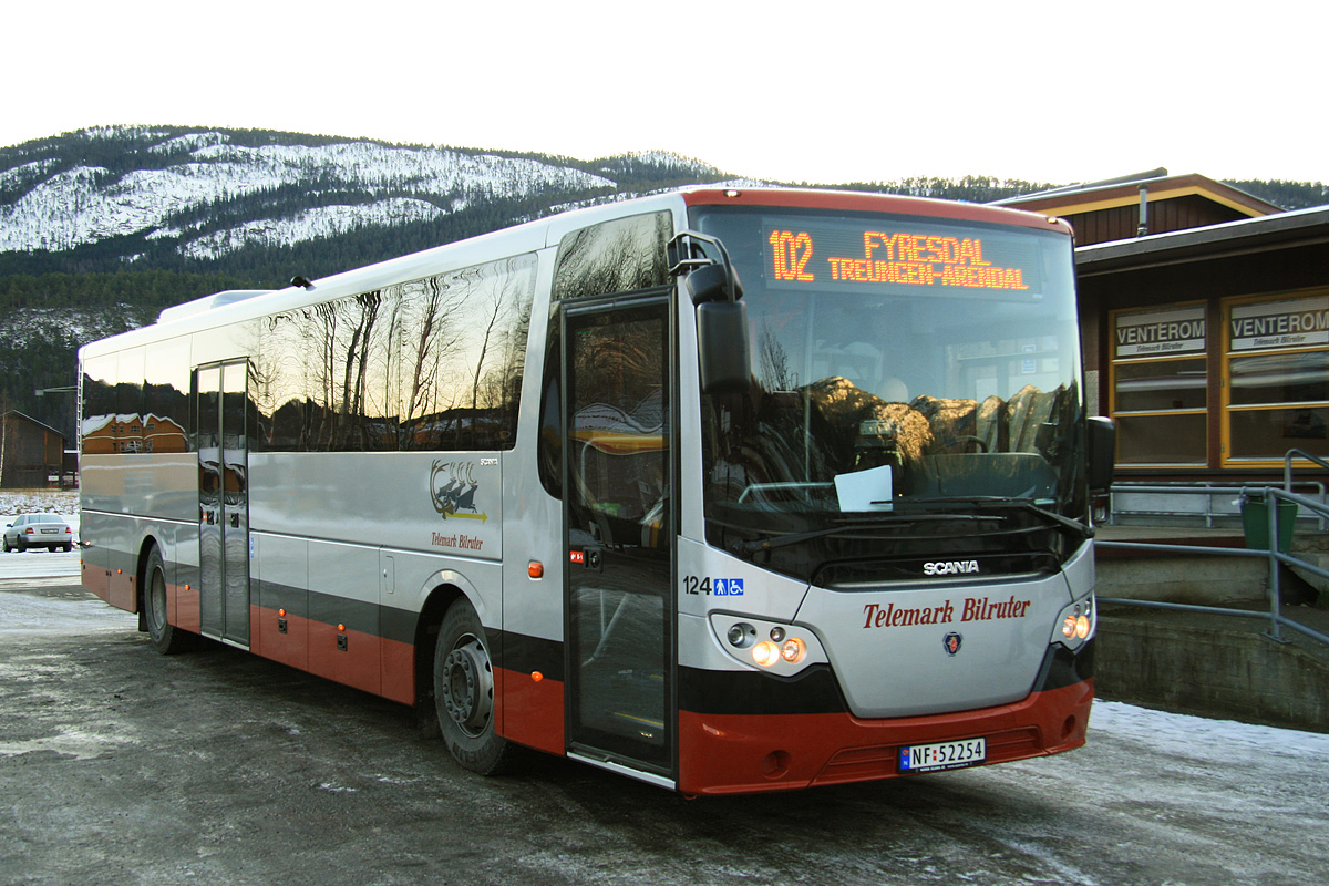 Scania LK 320 EB4x2NI OmniExpress 3.20 from Telemark Bilruter.